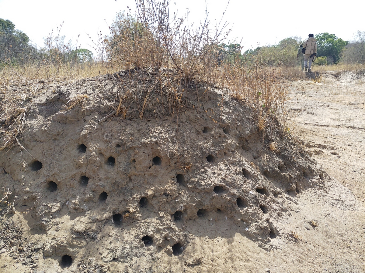 Red-throated Bee-eater Merops bulocki ground nests near a river bank, Yankari National Park, Bauchi, Nigeria